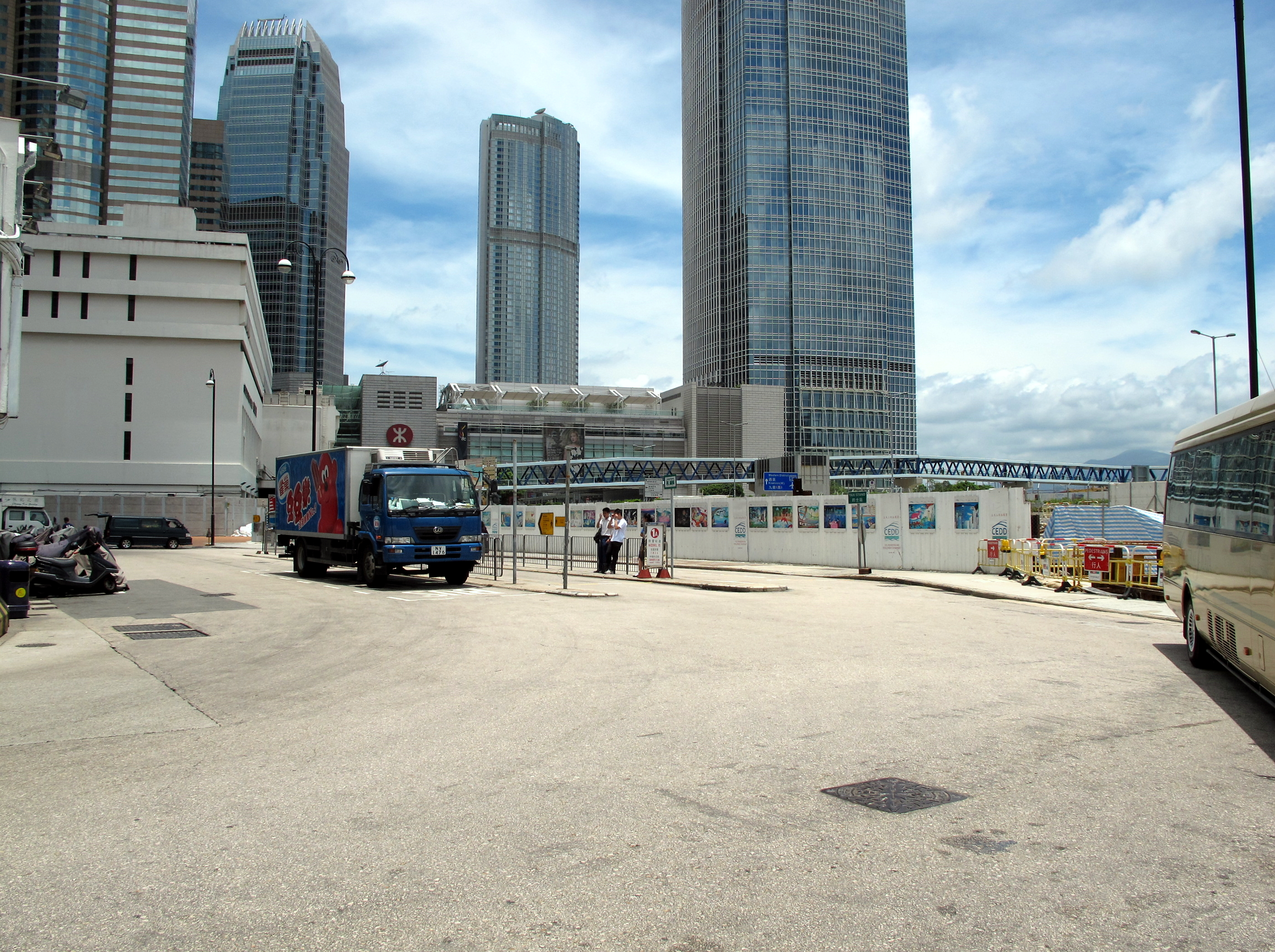 Edinburgh Place 愛丁堡廣場